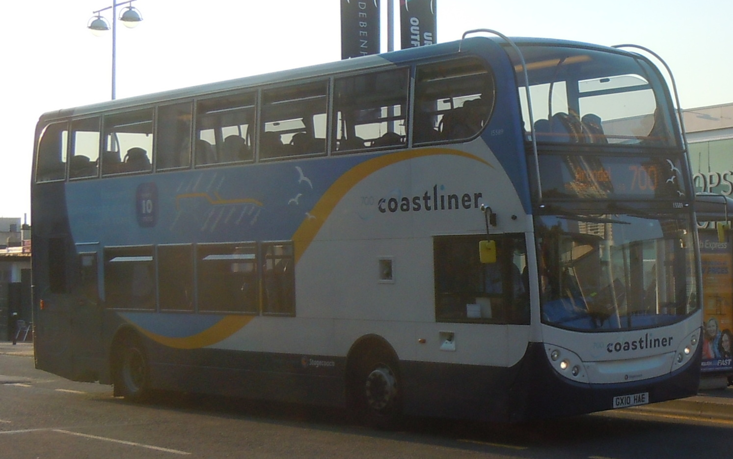 Bus Company: Stagecoach South Bus: GX10 HAE Route: 700 Destination: Arundel Location: Churchill Square, Brighton Date: 14th September 2016